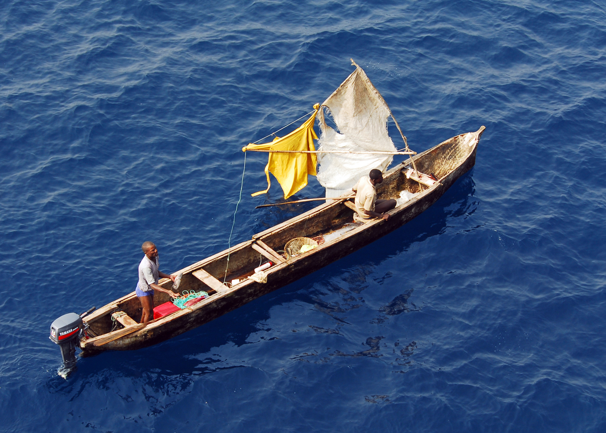 GULF OF GUINEA (Jan. 30, 2008) Two stranded fishermen plead for help from the crew of the amphibious dock landing ship USS Fort McHenry (LSD 43) 26 nautical miles off the coast of Sao Tome and Principe, off the western coast of Africa. Lookouts aboard the U.S. Navy ship noticed the fishermen waving their shirts and rubbing their stomachs. The men were out to sea for four days and out of fuel and supplies. The Fort McHenry is part of Africa Partnership Station, a multi-national effort to bring the latest training and techniques to maritime professionals in nine West and Central African countries. U.S. Navy photo by Mass Communication Specialist 2nd Class R.J. Stratchko (Released)